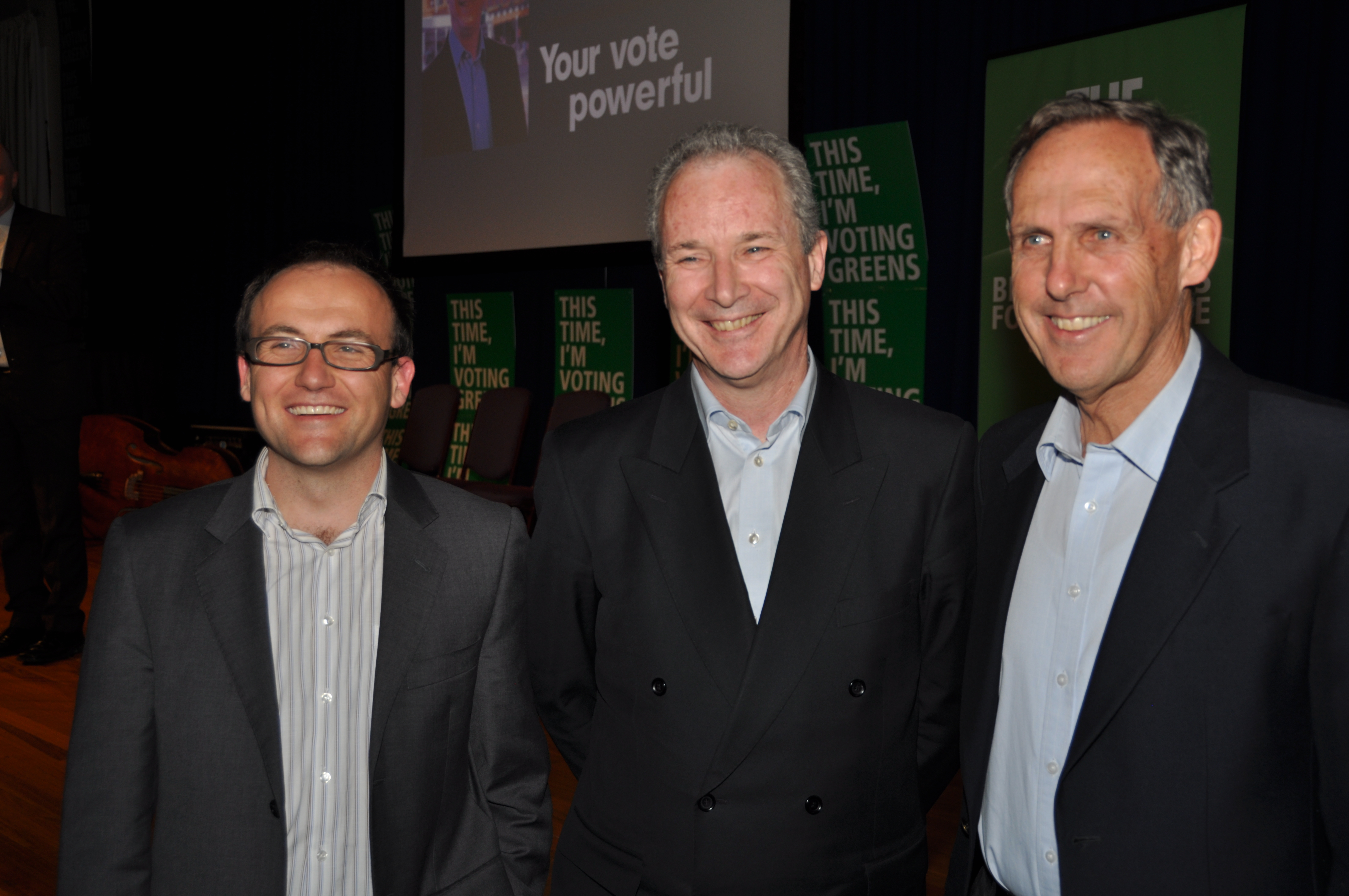 Brian Walters, Adam Bandt MP and Senator Bob Brown at Brian Walters campaign launch for the Victorian state seat of Melbourne.